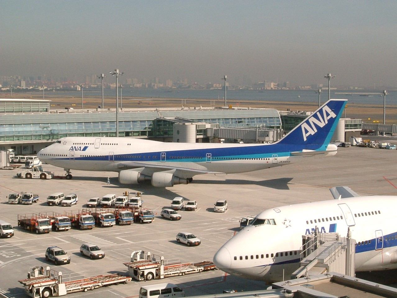 Tokyo International Airport (Haneda) second terminal building and All Nippon Airways Boeing 747.